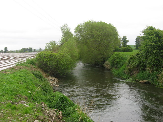 River Gylde at Glydefarm, Co. Louth Downstream from Tallanstown, the River Glyde divides the townlands of Glydefarm on left and Louth Hall on right.